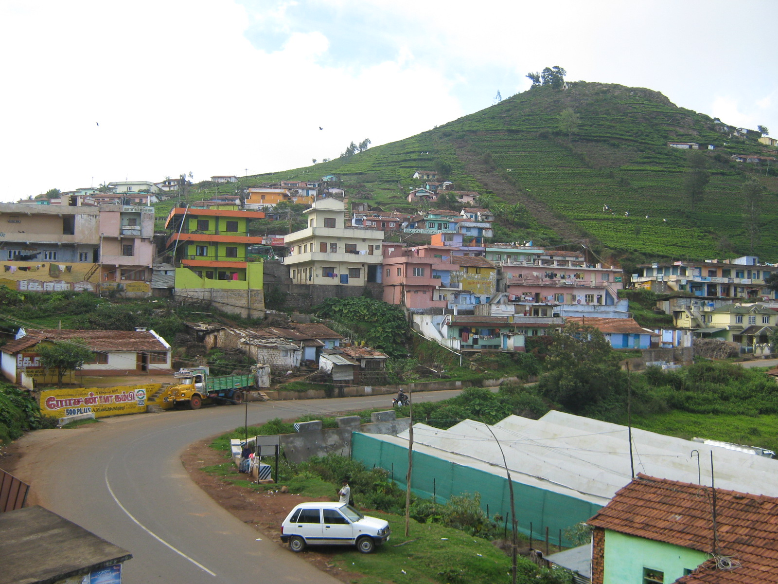 Kattabettu junction, Kotagiri, Ooty, India.